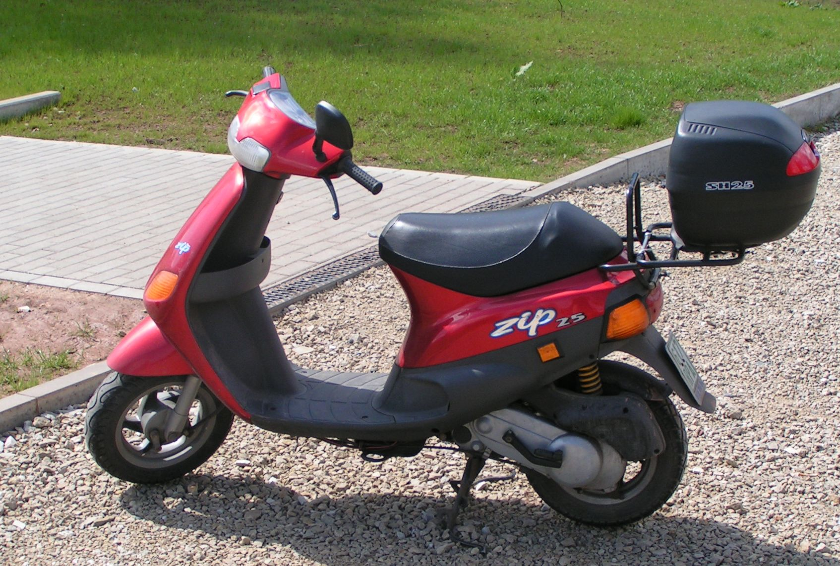 Piaggio Zip scooter